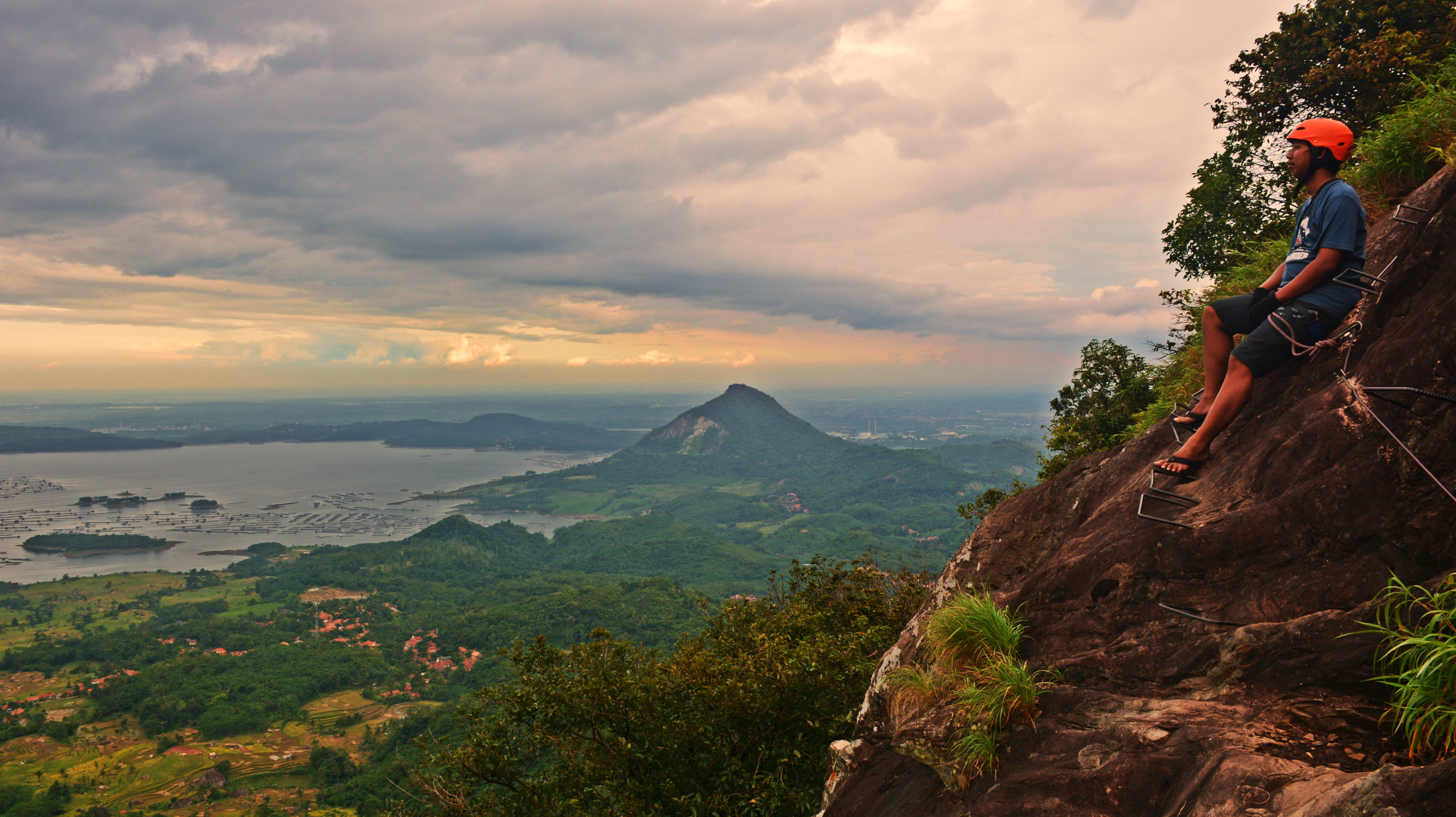 A man enjoying the view of Purwakarta and its famous reservoir from the cliff of Parang Mountain, Purwakarta, West Java